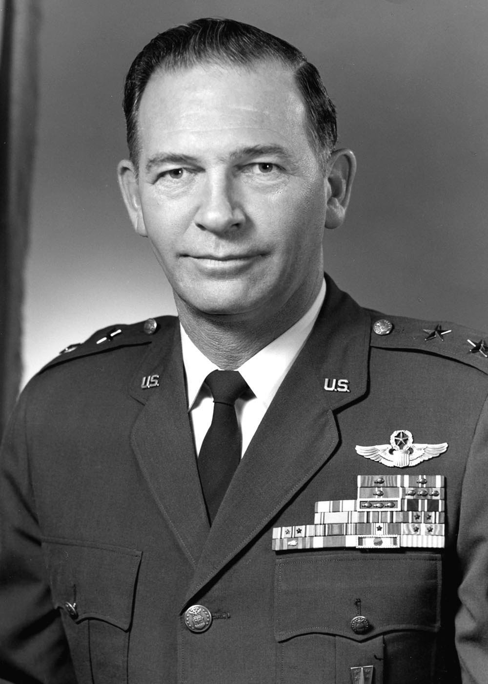 USAF Maj Gen Francis W. Nye